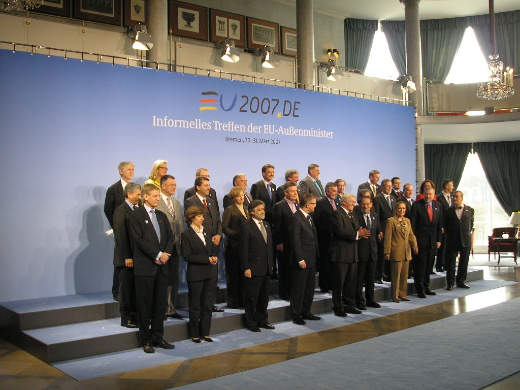 Meeting of the European Union foreign ministers (Gymnich) at the Park Hotel in Bremen, March 2007